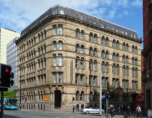 Photograph of 101 Portland Street, Manchester, England